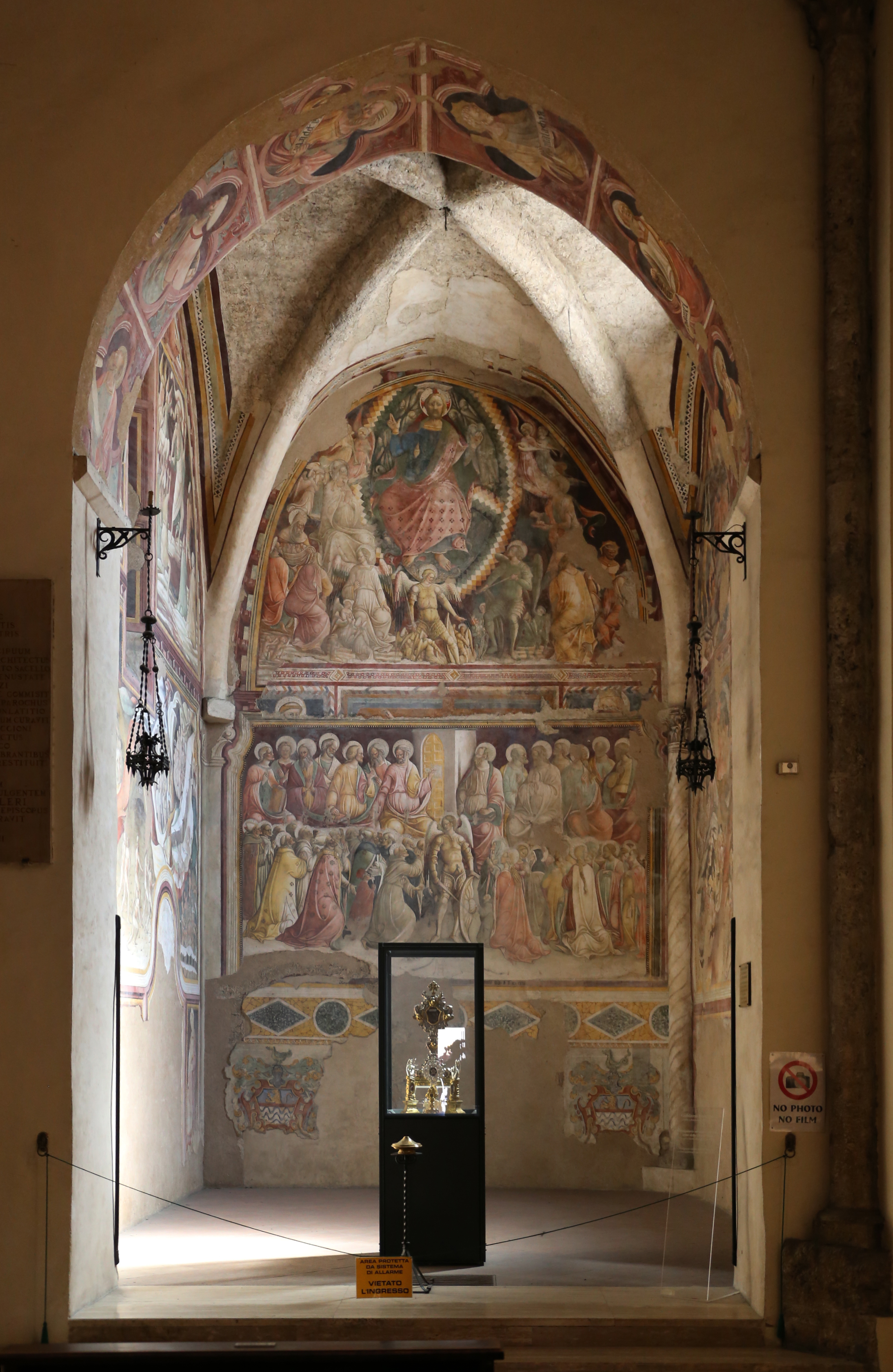 San Francesco (Terni)